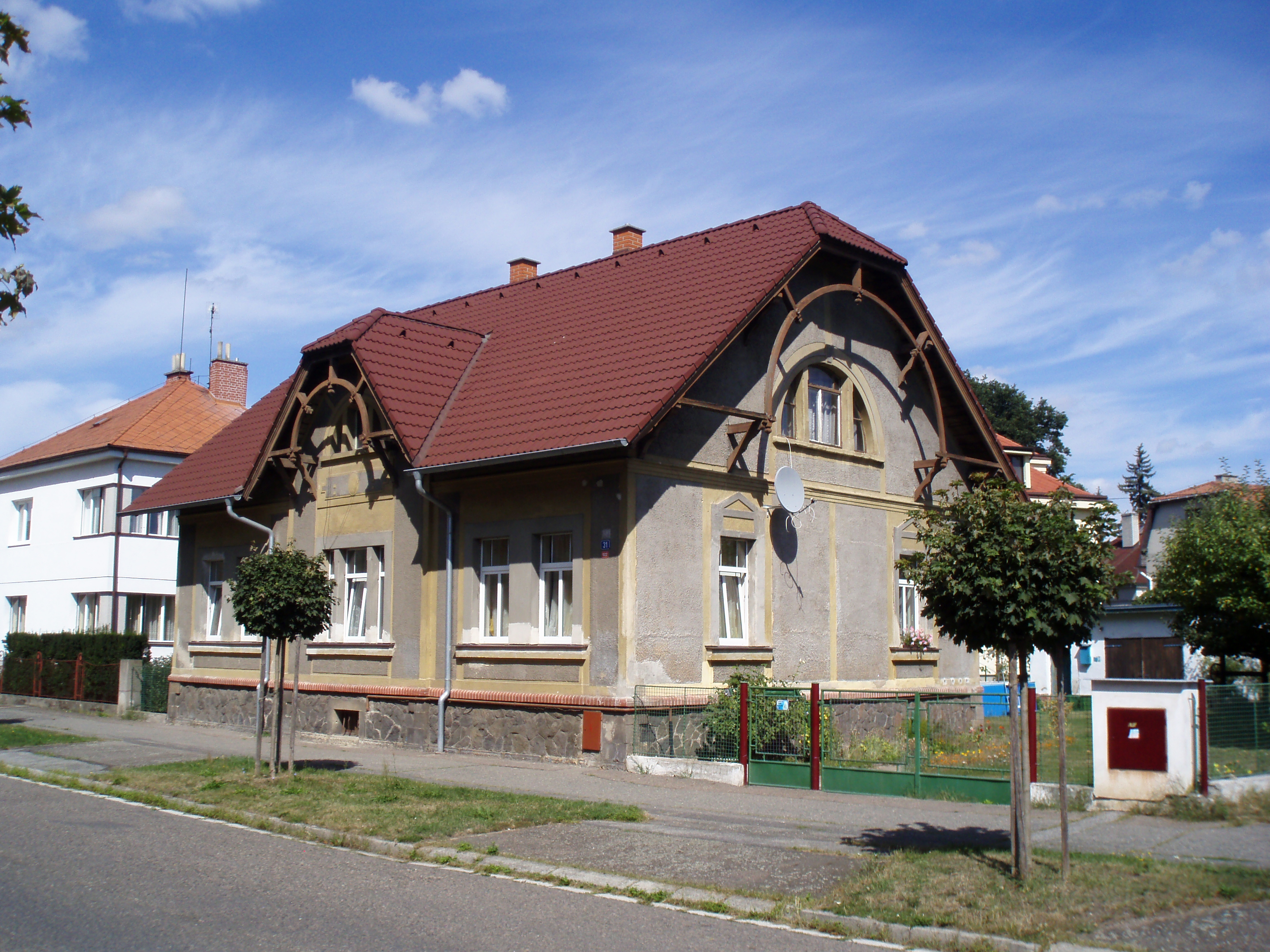 House Nr 922 in Street Horova in Hradec Králové (Czechia)